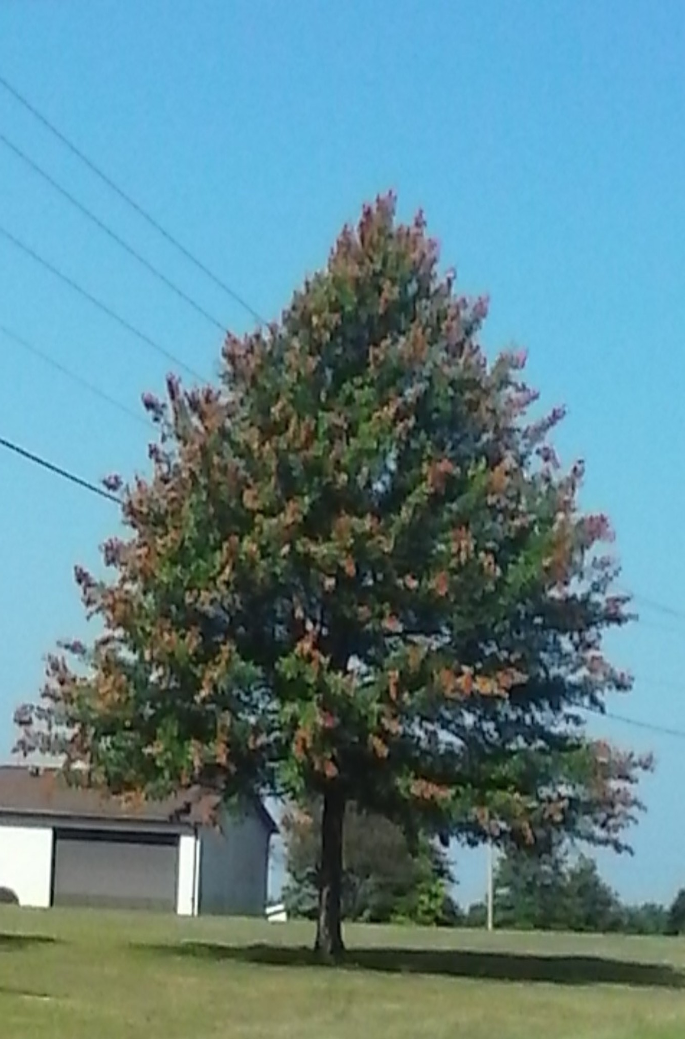 This oak tree in eastern Ohio suffered damage from Brood V of the 17-year locusts in June 2016.